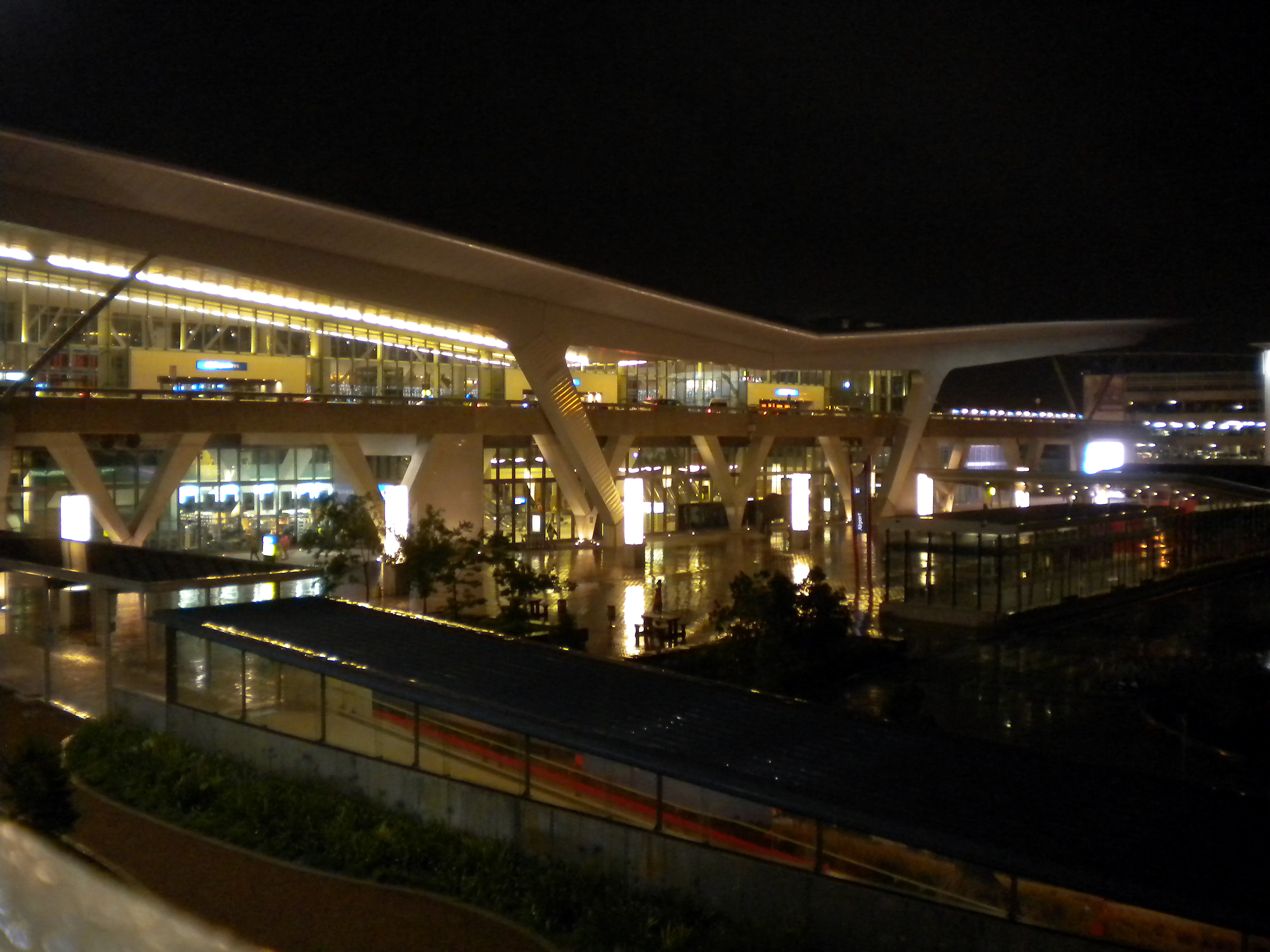 New Central Terminal Building at Cape Town International Airport